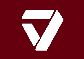 Flag of Watari Miyagi